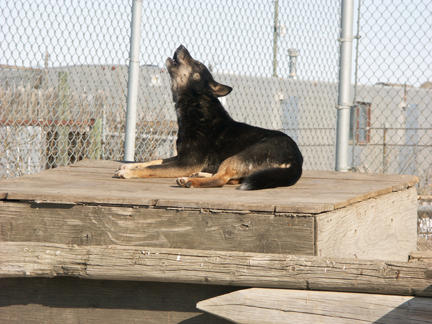 A black & tan singing dog in song.